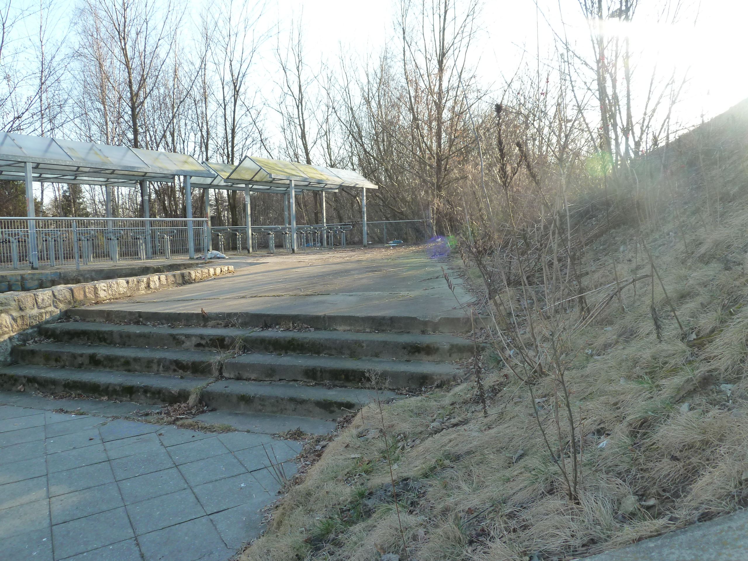 Berlin-Blankenburg railway station, access to a former platform, now closed